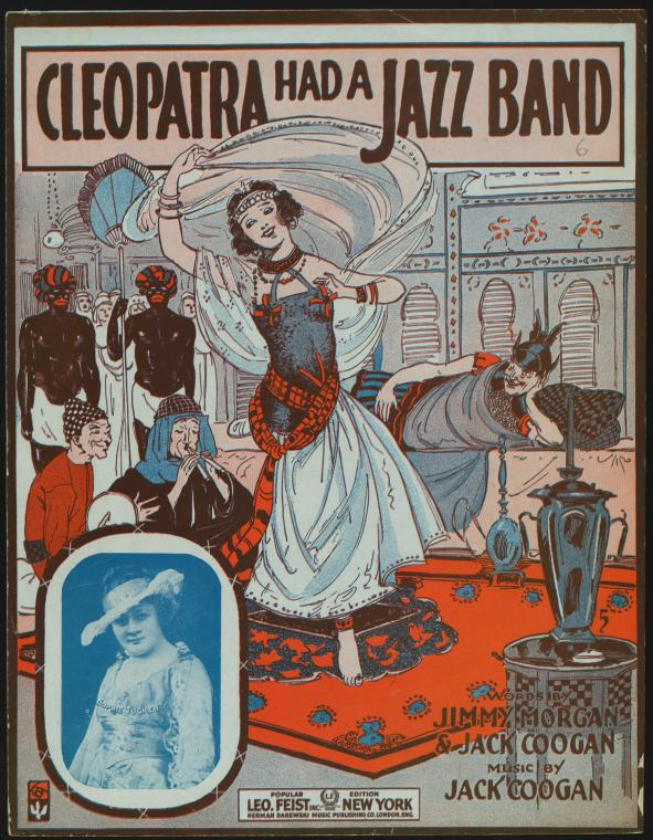 "Cleopatra Had A Jazz Band", 1917 sheet music cover. Insert photo of Sophie Tucker.